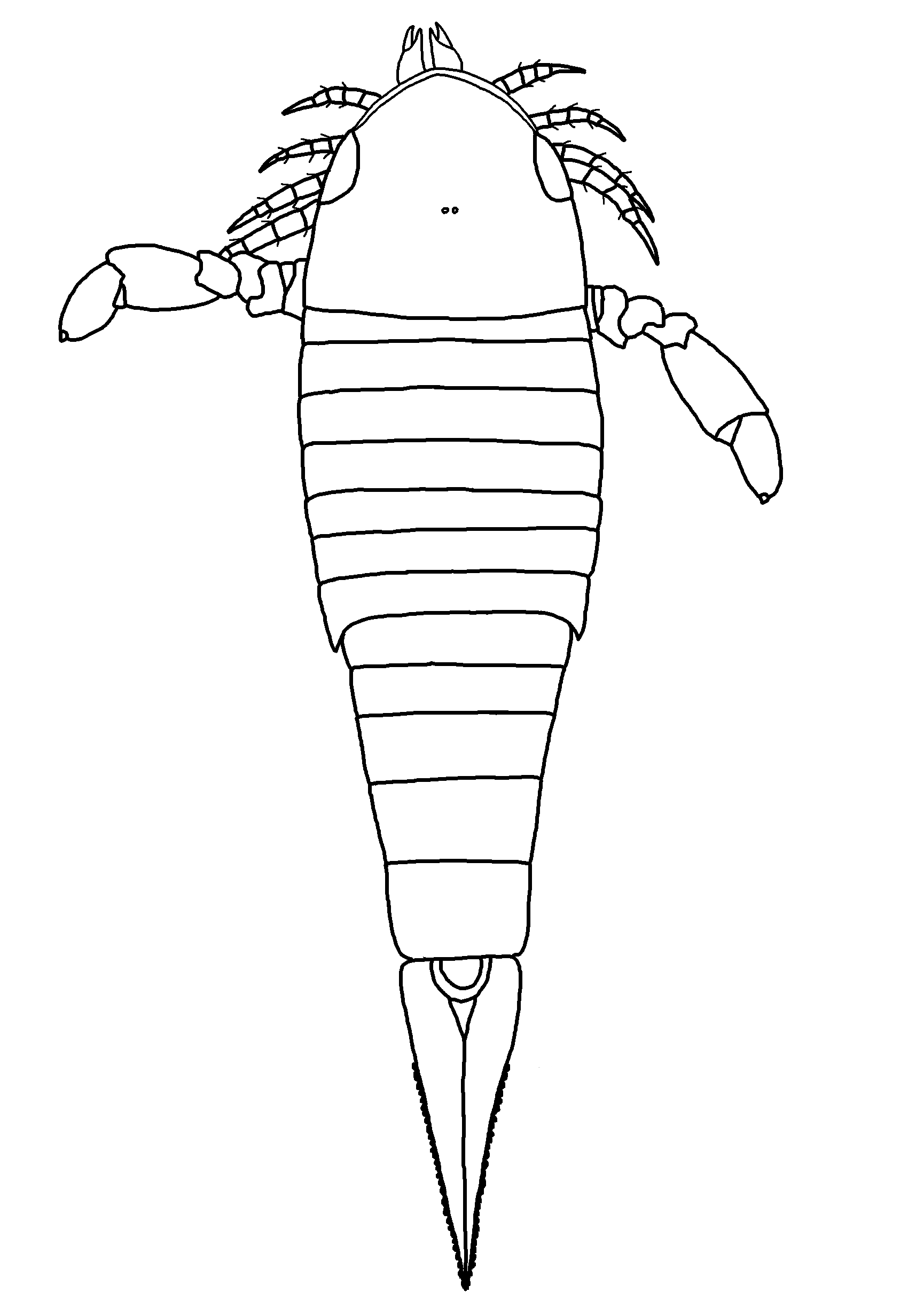 Restoration of the eurypterid Herefordopterus banksii. Female specimen. Irregularities in the telson represent the marginal ornamentation, composed by dark scales. Based on Tetlie, 2006